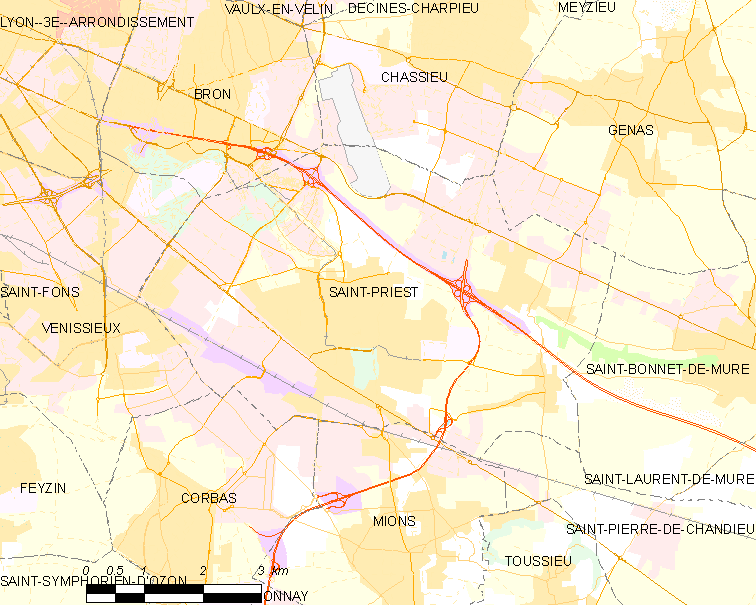 Map of French municipality